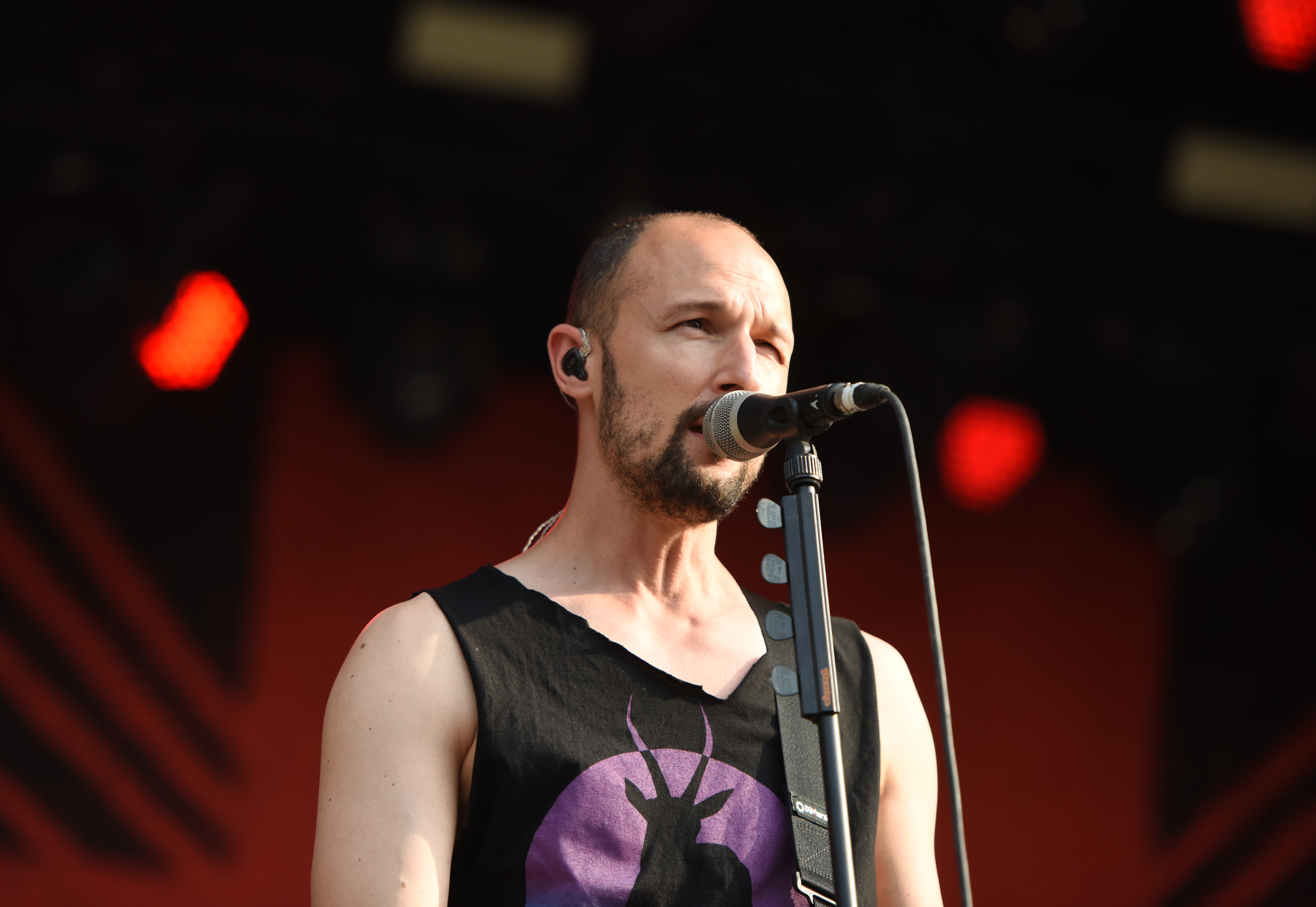 Donots at the Open Flair festival 2015 in Eschwege, Germany.